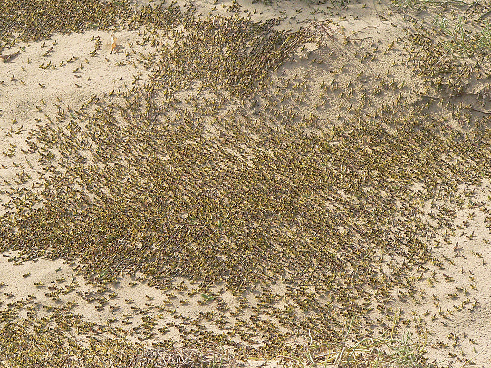 L4 hopper band of Schistocerca gregaria photographed near Aeterba, Red Sea coast, Sudan